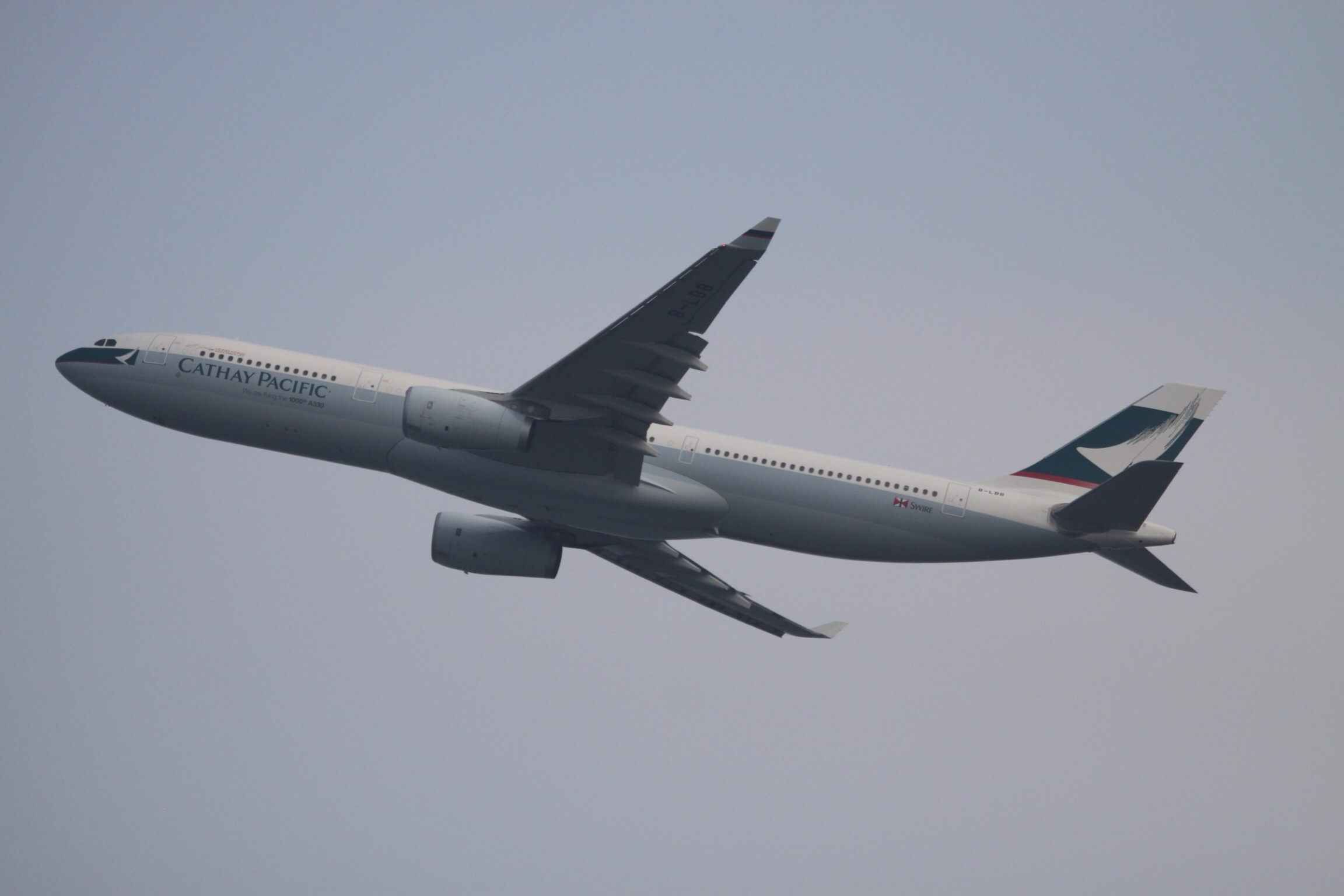 At Hong Kong Chek Lap Kok